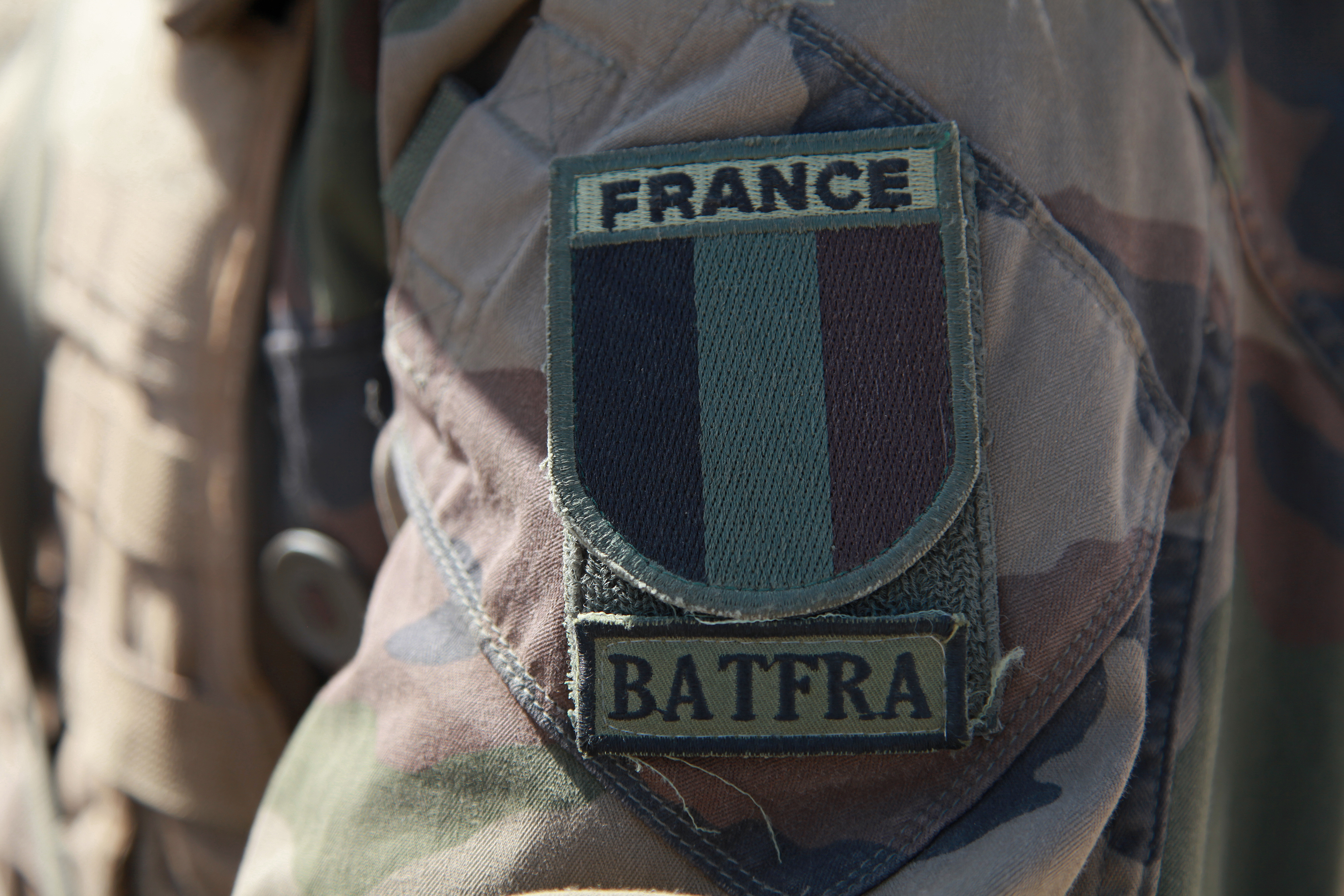 The shoulder patch of a soldier belonging to the French Battalion (BATFRA) of the Regional Command-Capital in Afghanistan.